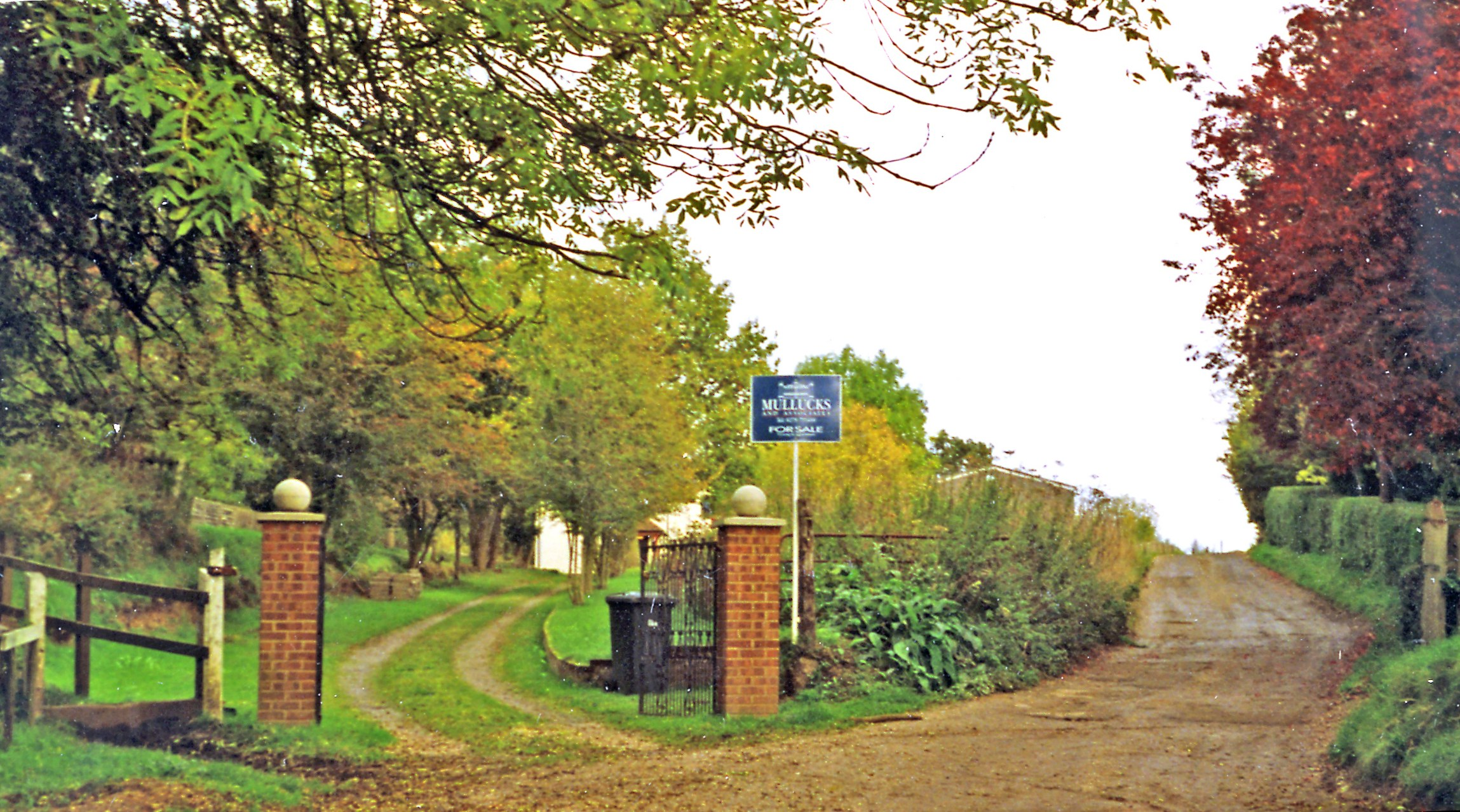 Site of Hertingfordbury station, 1993. View eastward, towards Hertford North: ex-GNR Hatfield - Welwyn Garden - Hertford North branch. The station was closed from 18/6/51, but goods continued until 6/3/62.